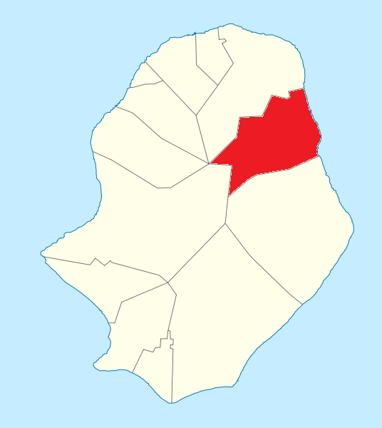 Location map for Lakepa, Niue. Based on file:Niue location map.svg.